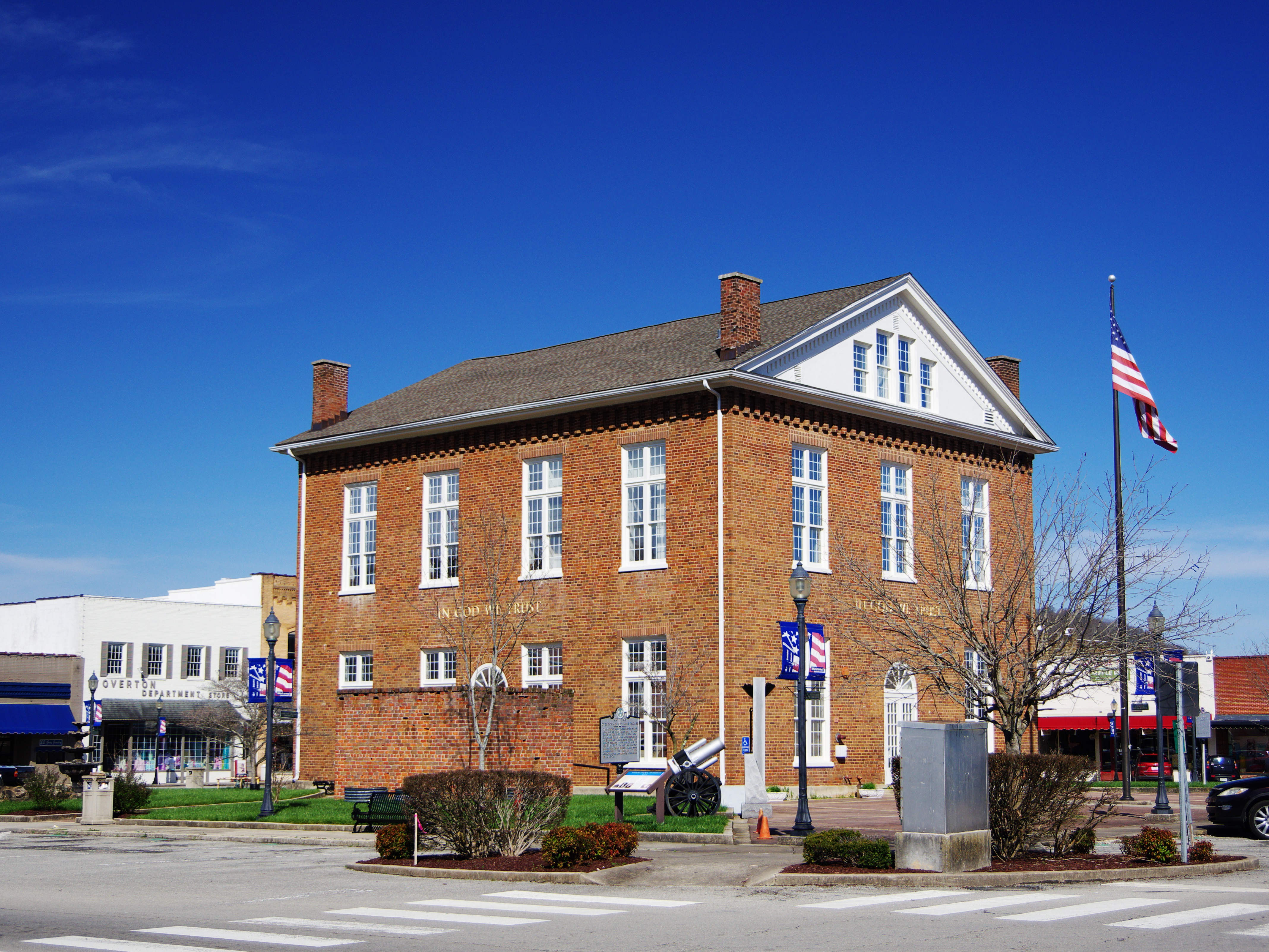 Overton County Courthouse in Livingston, Tennessee, United States, viewed from the southeast.